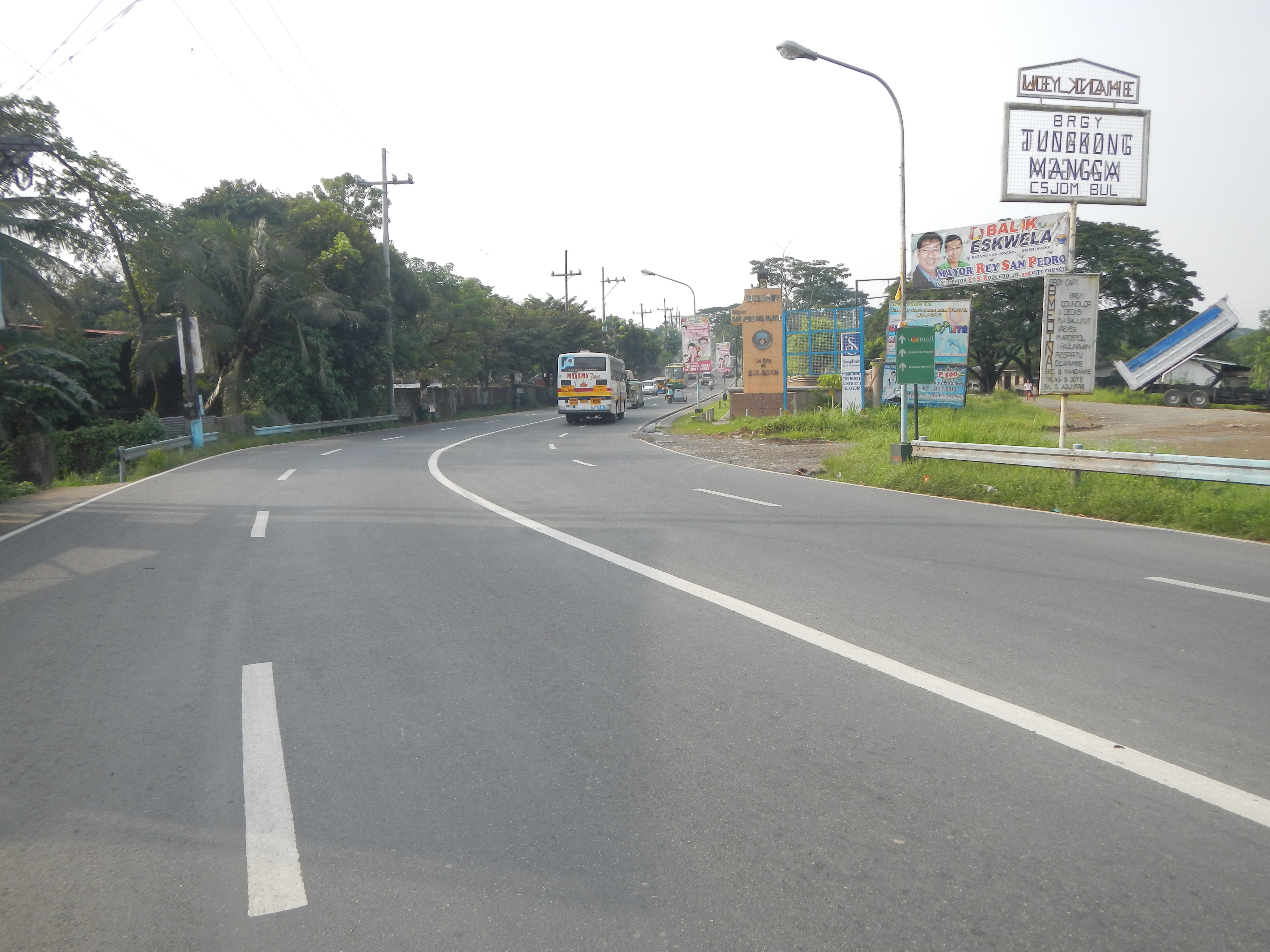 Quirino Highway, formerly called the Manila-del Monte Garay Road or Ipo Road,[1] in [2]Barangay Tungkong Mangga, San Jose del Monte